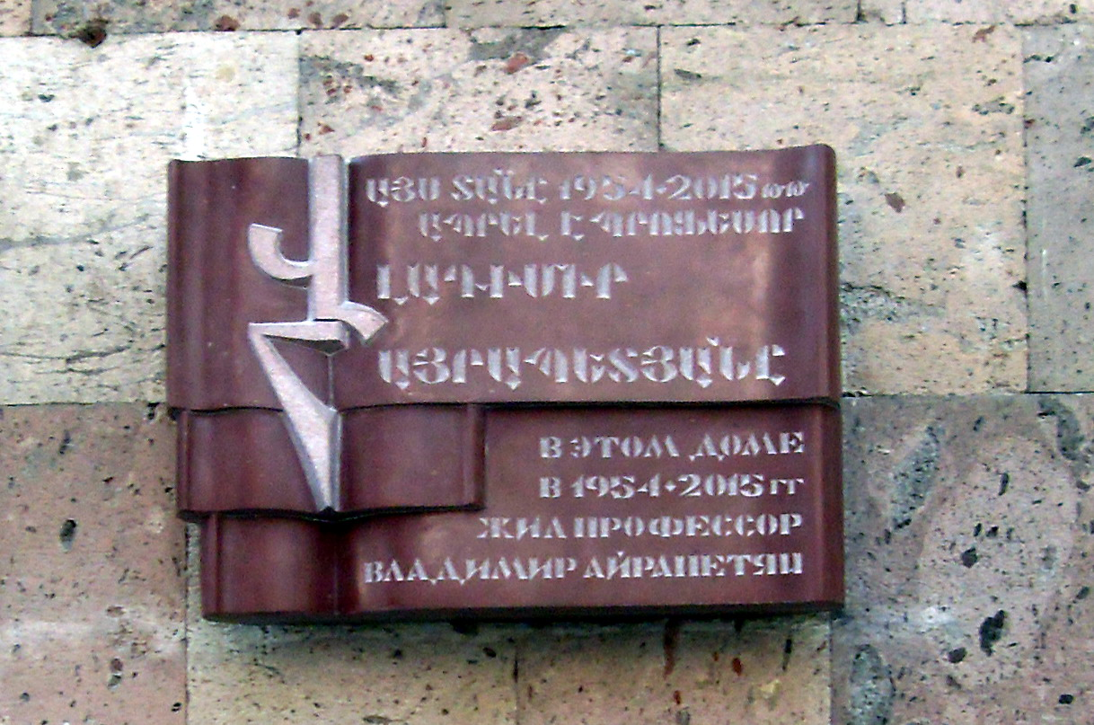 Plaque economist, Doctor of Economics, Professor Vladimir Hayrapetyan on the wall of the house where he lived (Yerevan, Amiryan str., 5a).